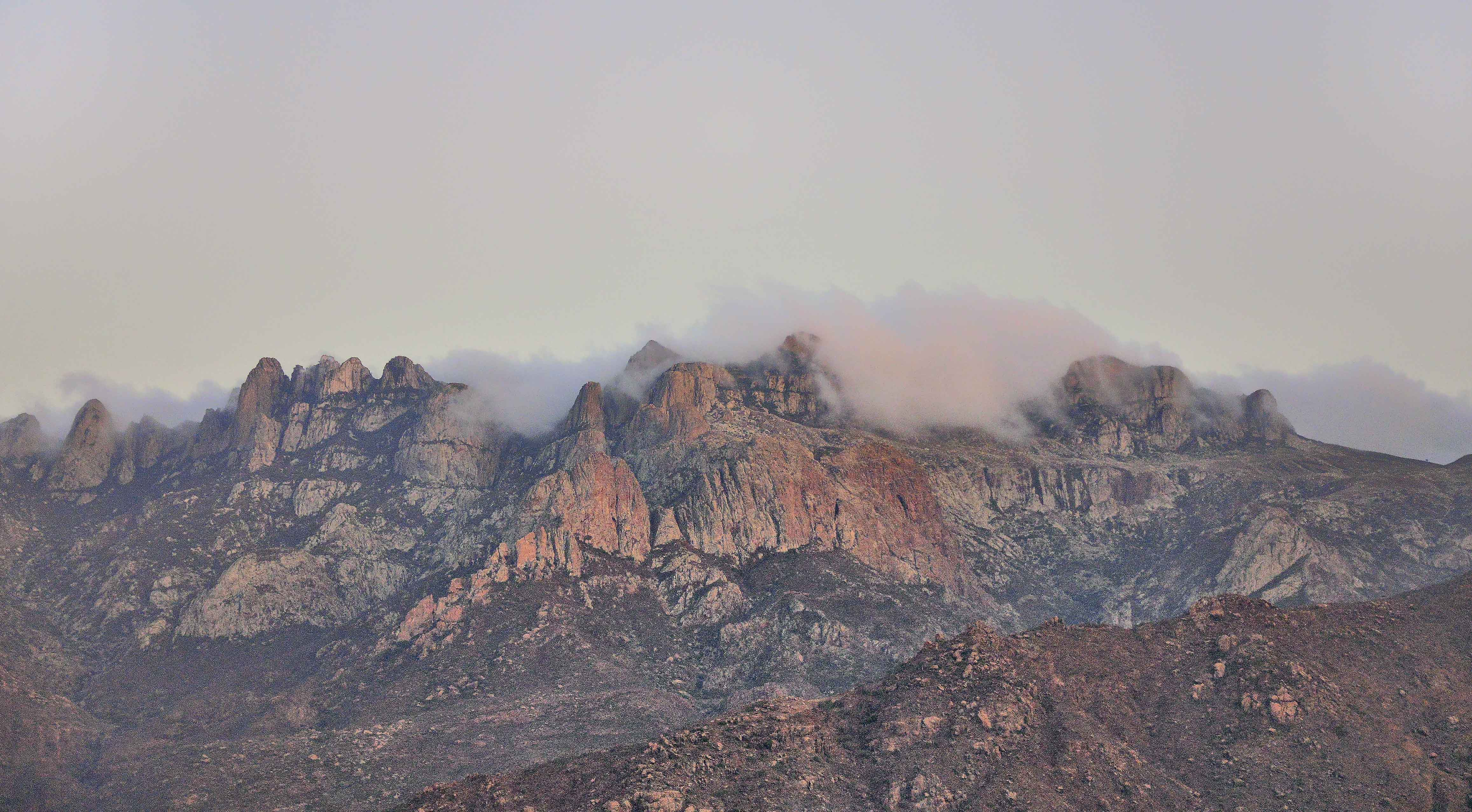 Moisture, Socotra Island.